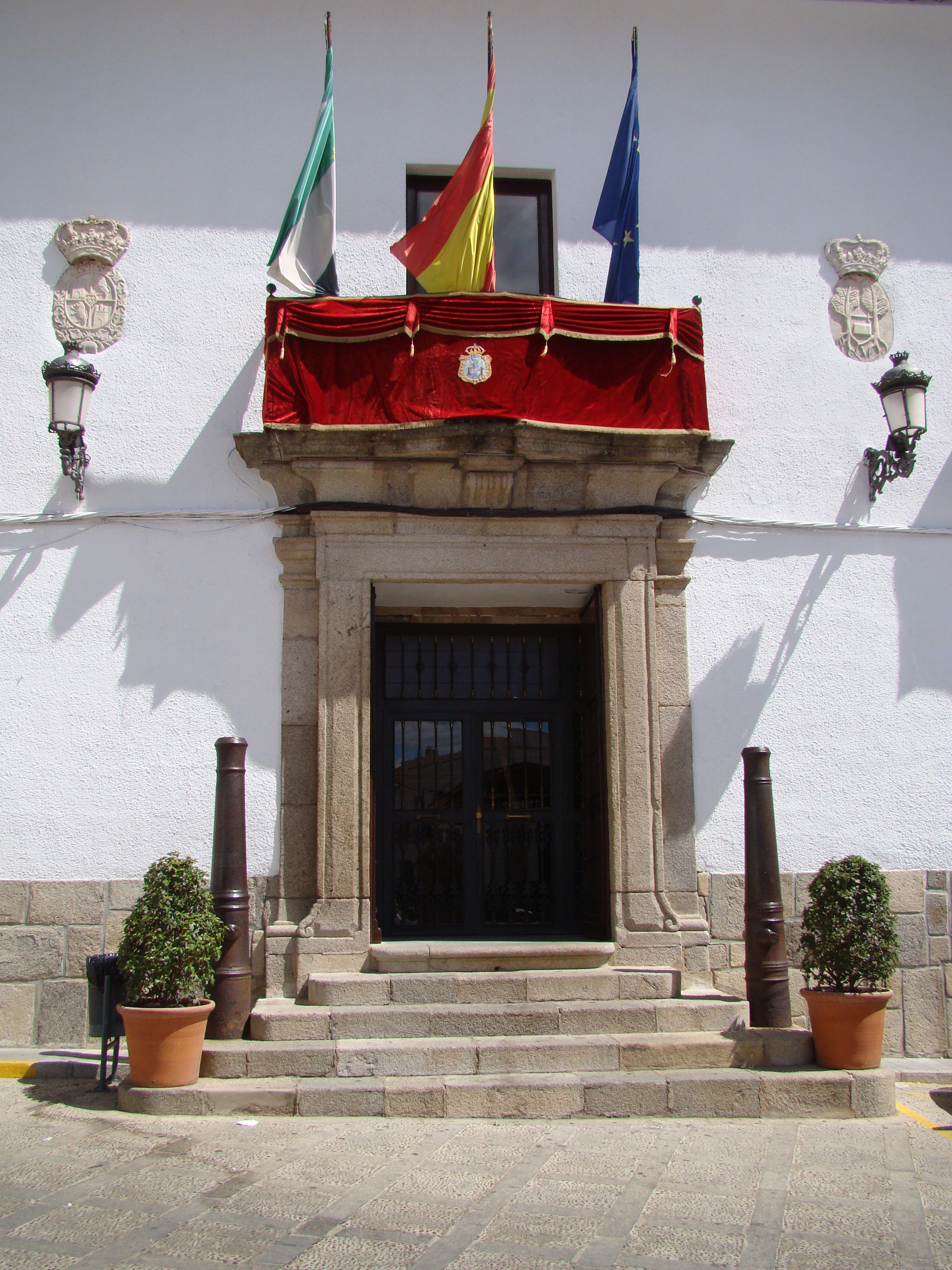 City Hall of Fregenal de la Sierra